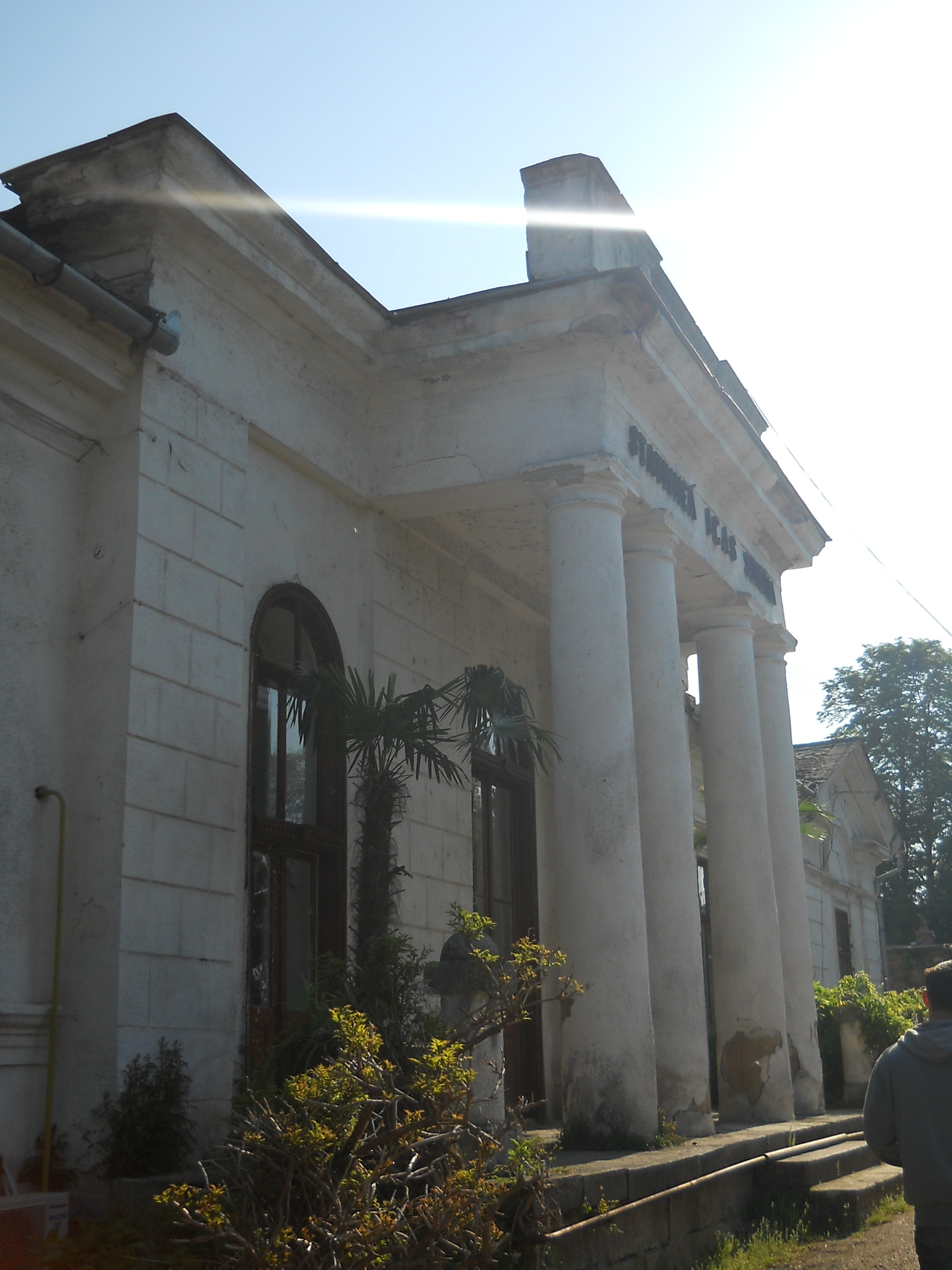 fatada